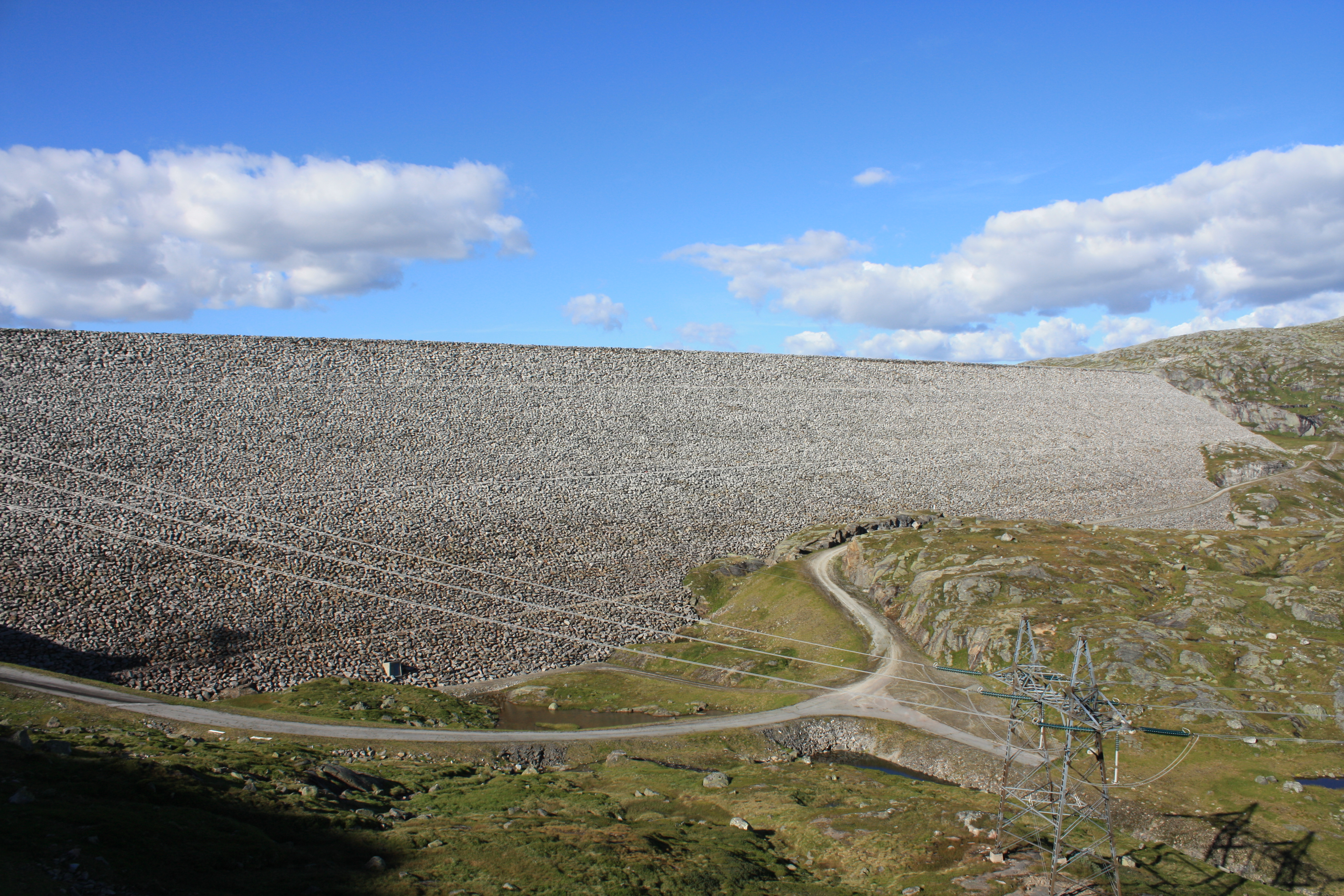 Storvassdammen by Blåsjø. Part of Ulla-Førre